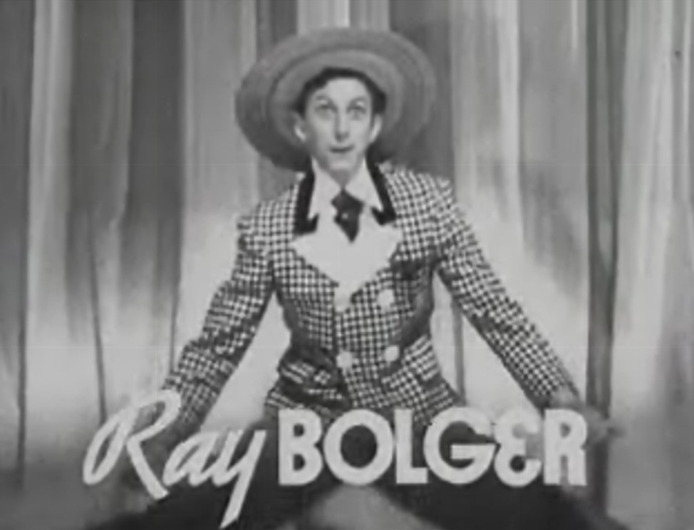 Cropped screenshot of Ray Bolger from the trailer for The Great Ziegfeld